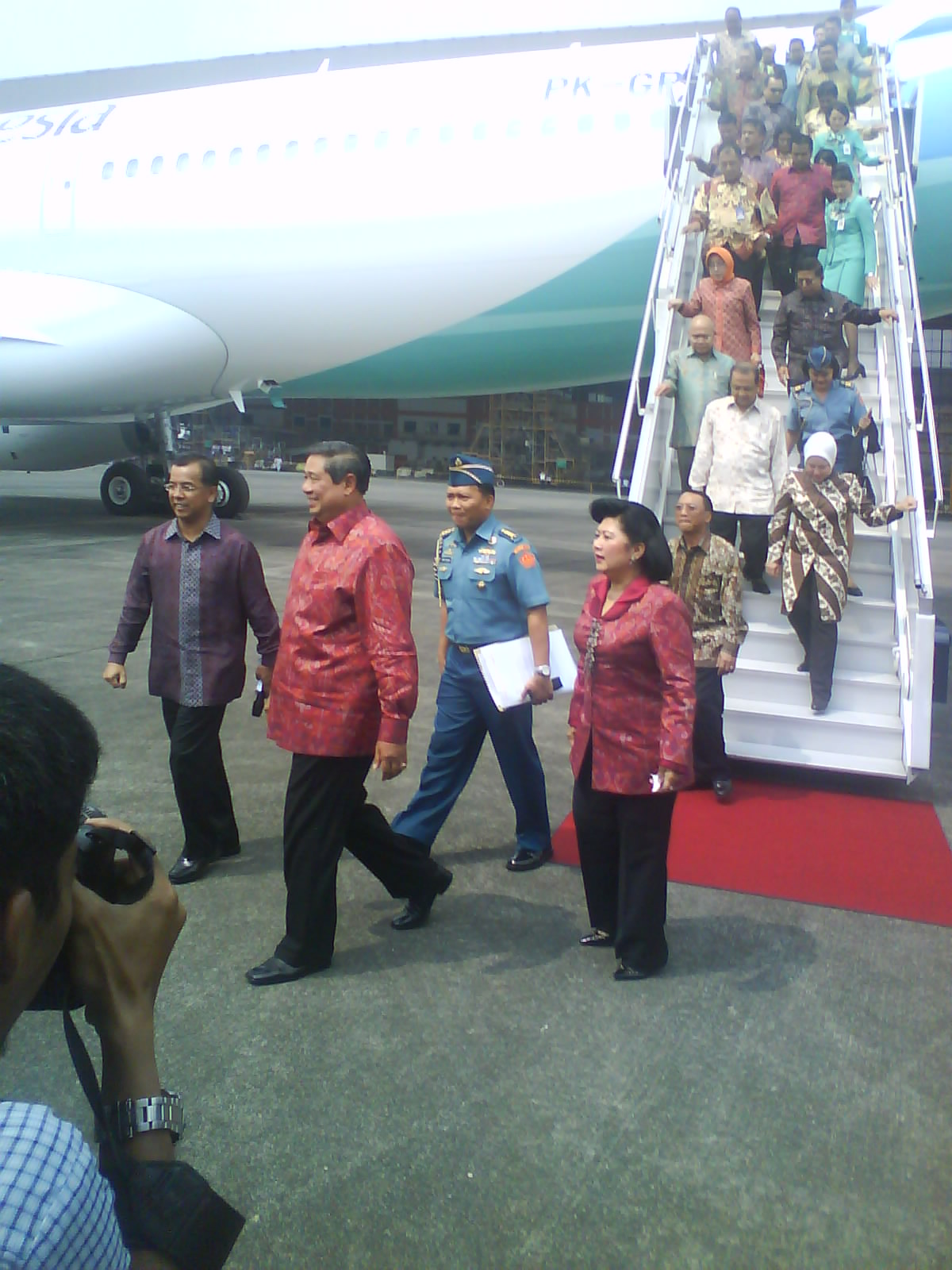 Indonesian President Susilo Bambang Yudhoyono with his wife.